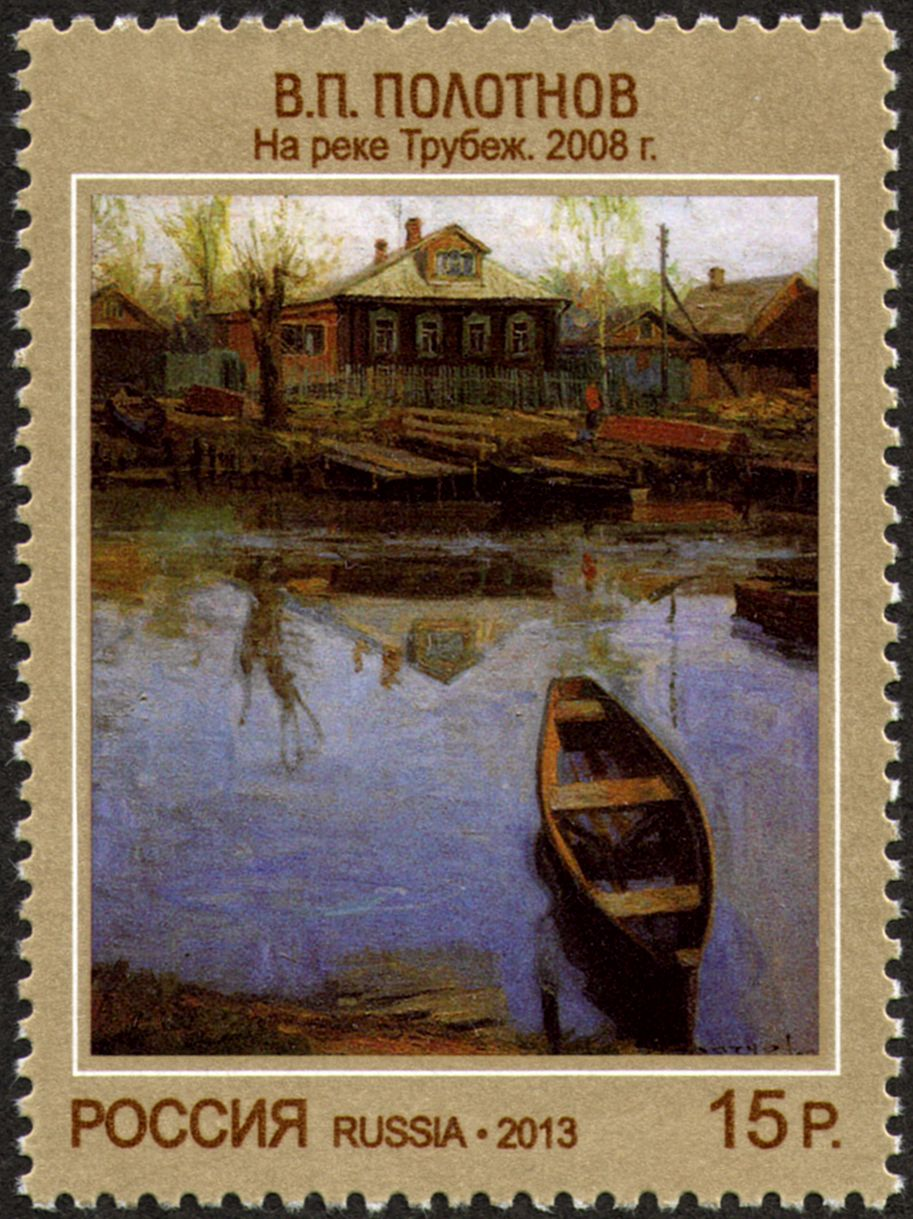 The contemporary art of Russia (the ongoing series, issue III).On the River Trubezh by Valery Polotnov. 2008.Valery Pavlovich Polotnov (born 1949) is a Russian painter, a People's Artist of the Russian Federation, a secretary of the Russian Union of Artists, a member of the art group Romantics of Realism. Valery Polotnov is known for his numerous landscape paintings featuring views of the Russian provinces.The stamp of Russia, 15.00 Rubles, 17 June 2013, PTC Marka Catalogue No 1705, Michel No 1937. Coated paper, varnish coating, bronze paste. Offset printing. Perforation: comb 11½×12. Size of the stamp: 37×50 mm. Print run: 300,000.